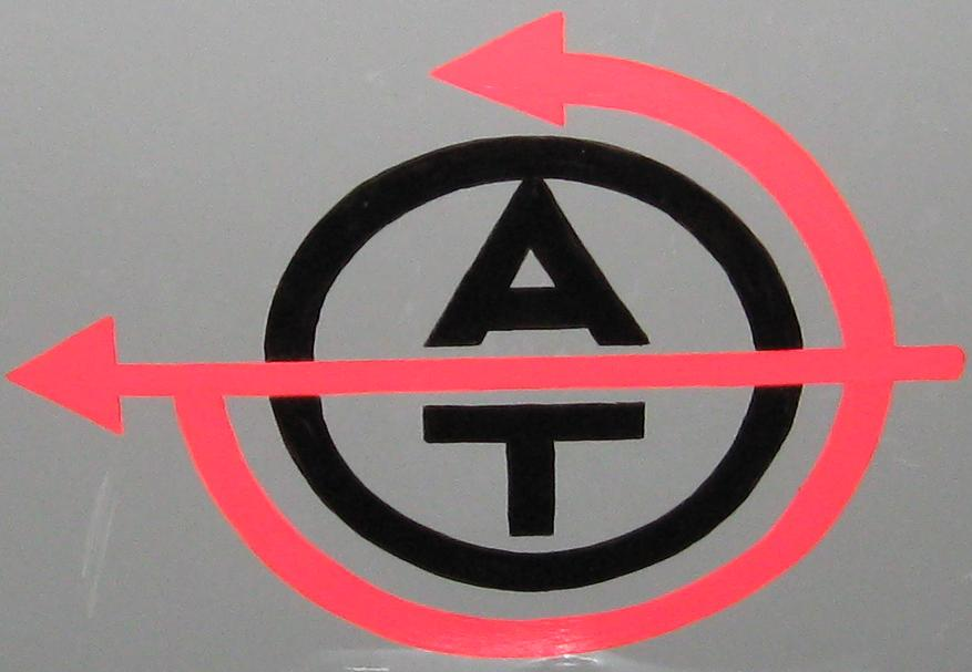 ATO logo on a ATO/Van Gend en Loos cargo truck, exhibited in the Dutch Railway museum.